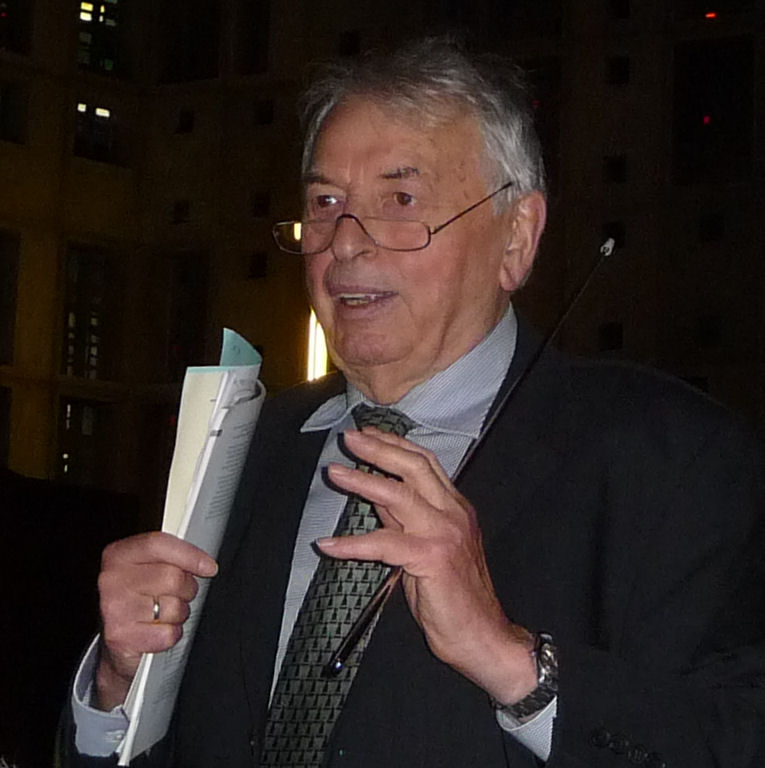 German architect Helmut Striffler